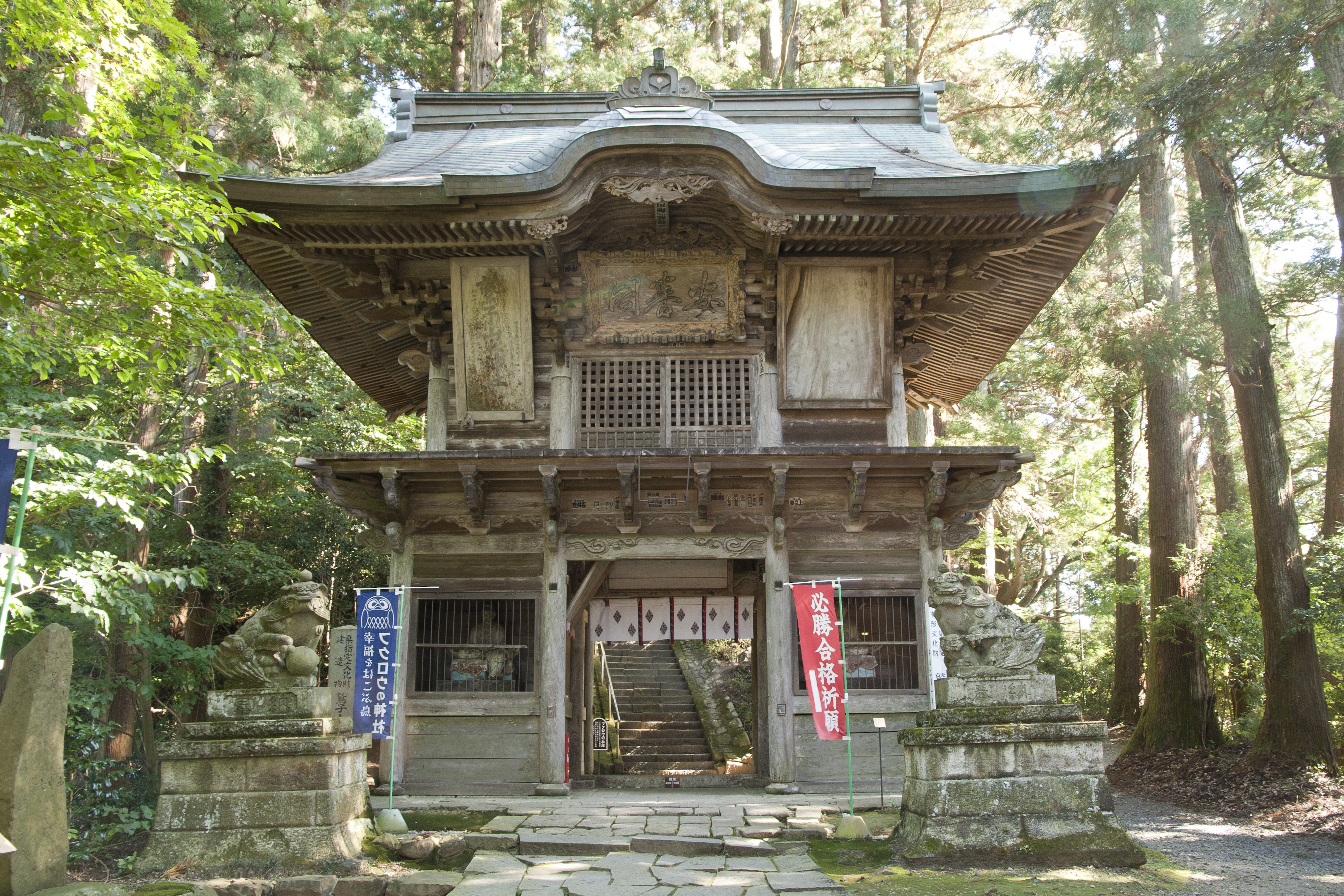 Torinoko-Sanjo Shrine（鷲子山上神社 とりのこさんじょうじんじゃ）, Ibaraki and Tochigi Prefectures, Japan